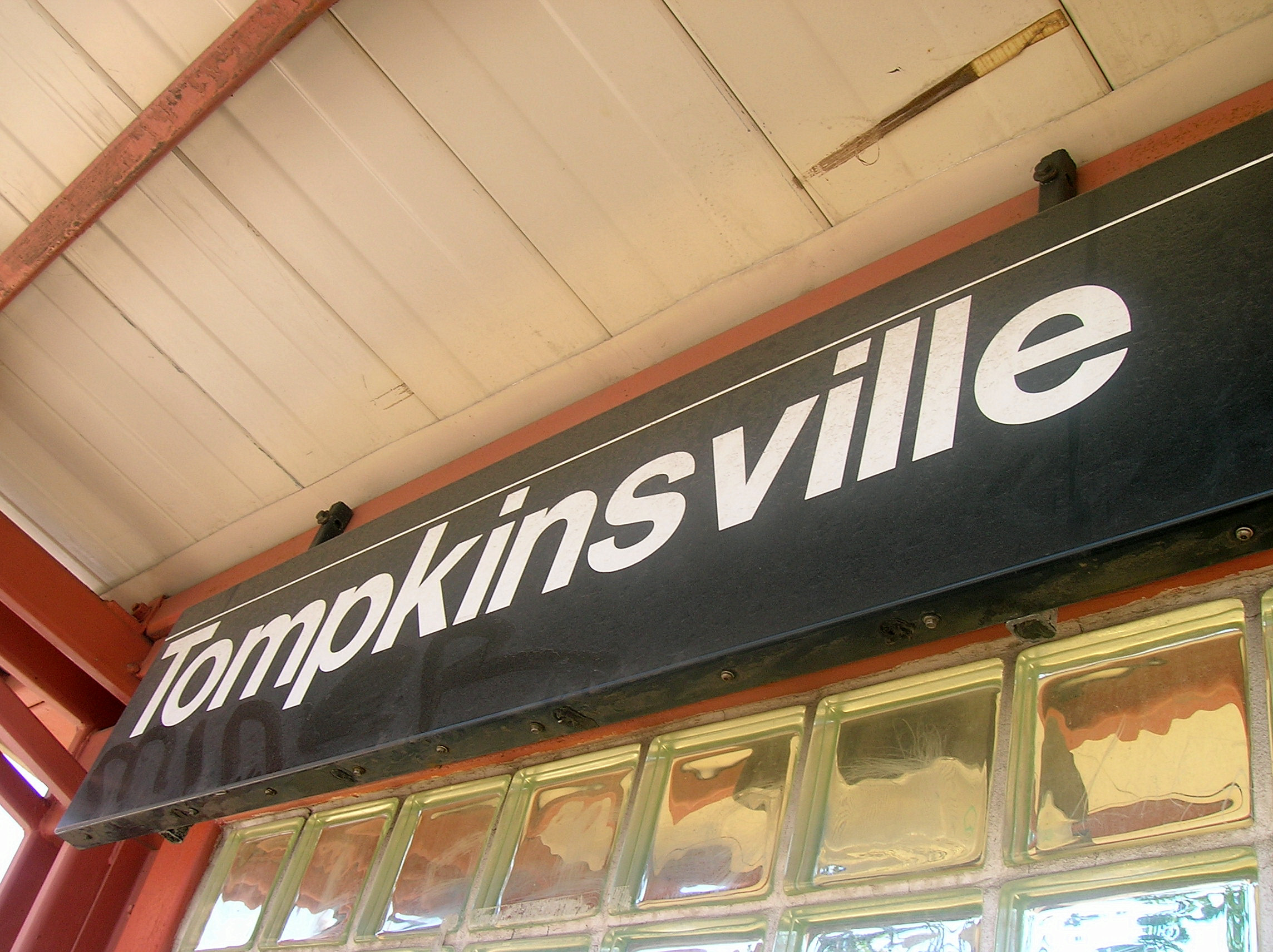 Tompkinsville (Staten Island Railway station) sign